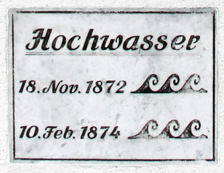 Memorial plaque, Hochwasser, Strandstraße 57, Zingst, Deutschland